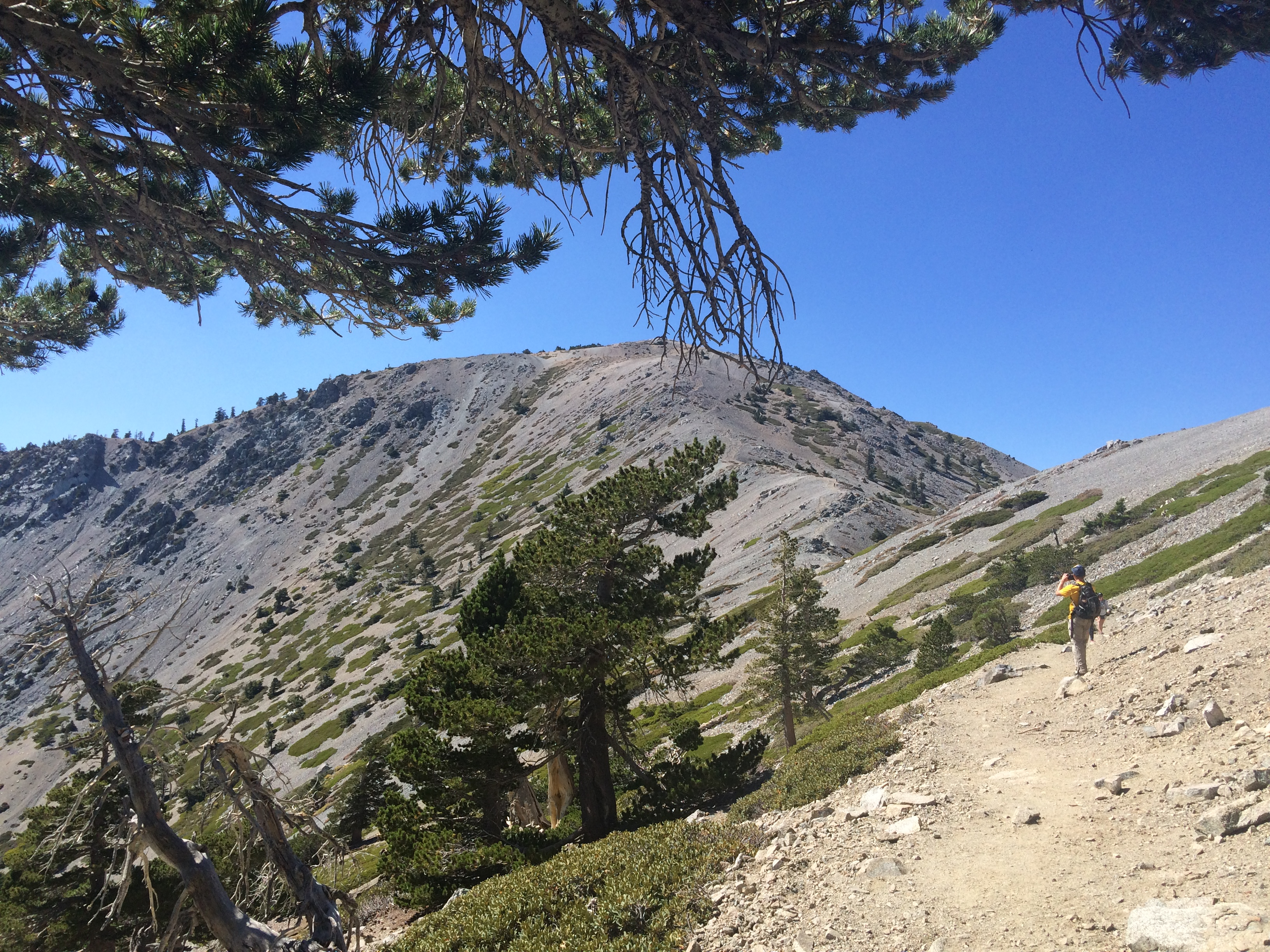 Taken from the southeastern slope of Mt. Baldy looking northwest at the peak of Mt. Baldy.